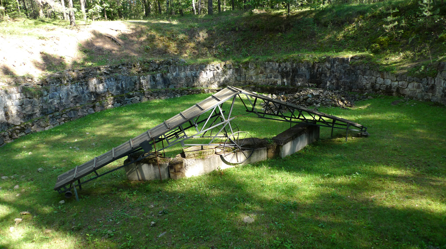 Burning pit, Paneriai Lithuania. Mass execution site of 70,000 Jews, 20,000 Poles and approx. 10,000 Russians. Shown here is the burning pit where the German SD & SS along with collaborating Lithuanian Sonderkommandos burned exhumed bodies from the Paneriai death pits in attempt to destroy the evidence of the mass executions.